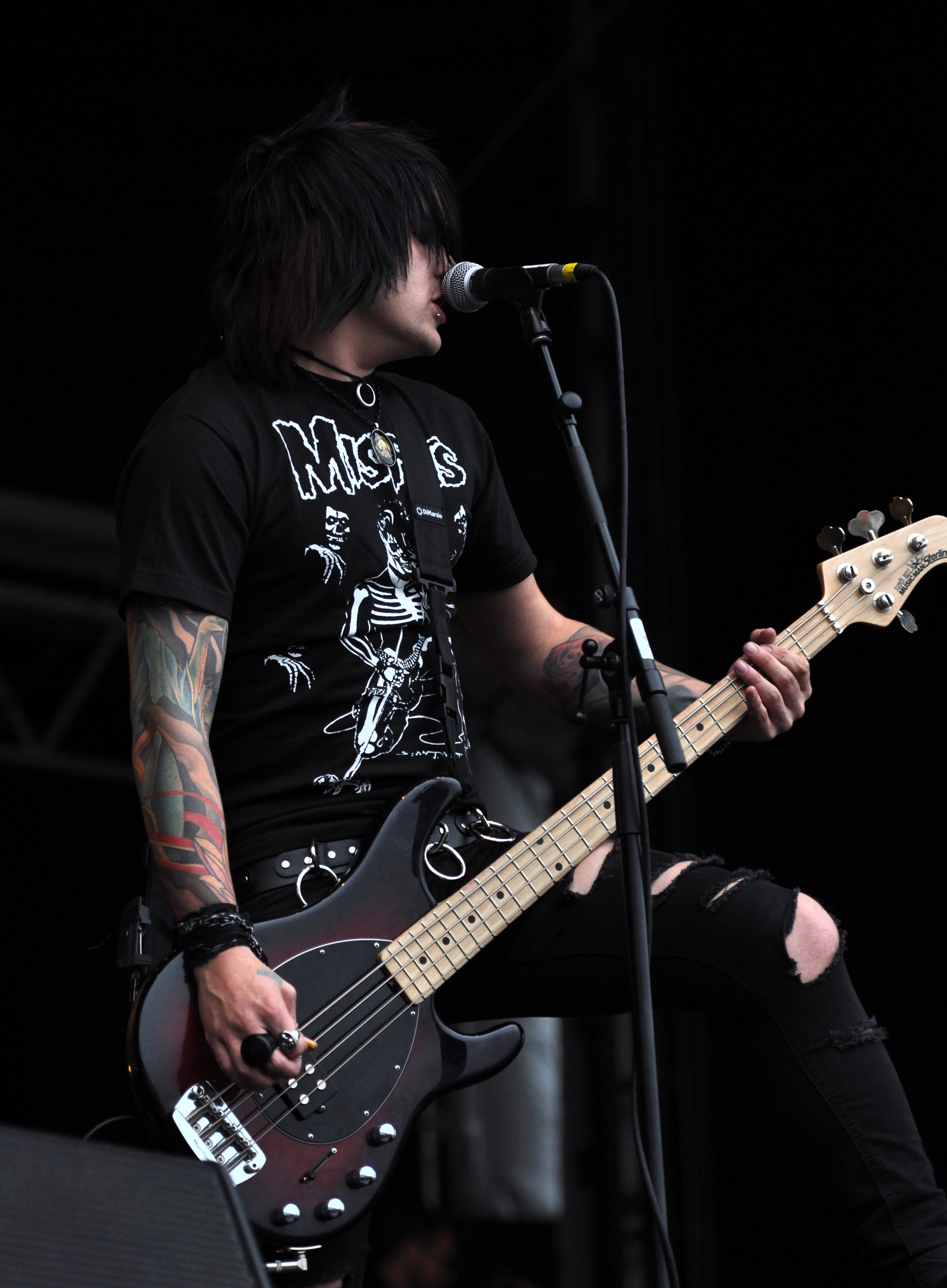 Escape the Fate at Rock am Ring 2013